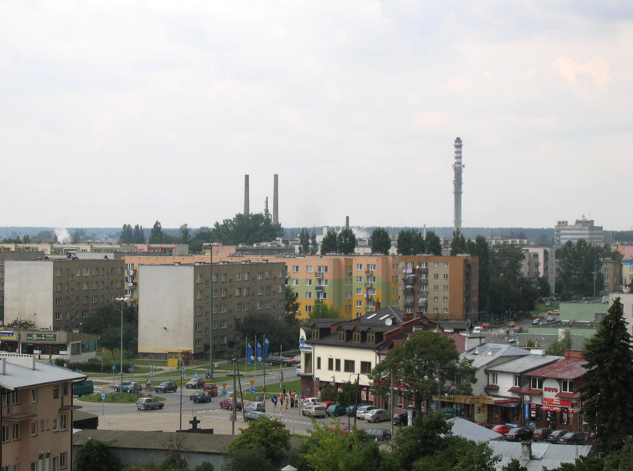 Panorama of Wyszków, crossing of Sowinskiego and Pultuska streets